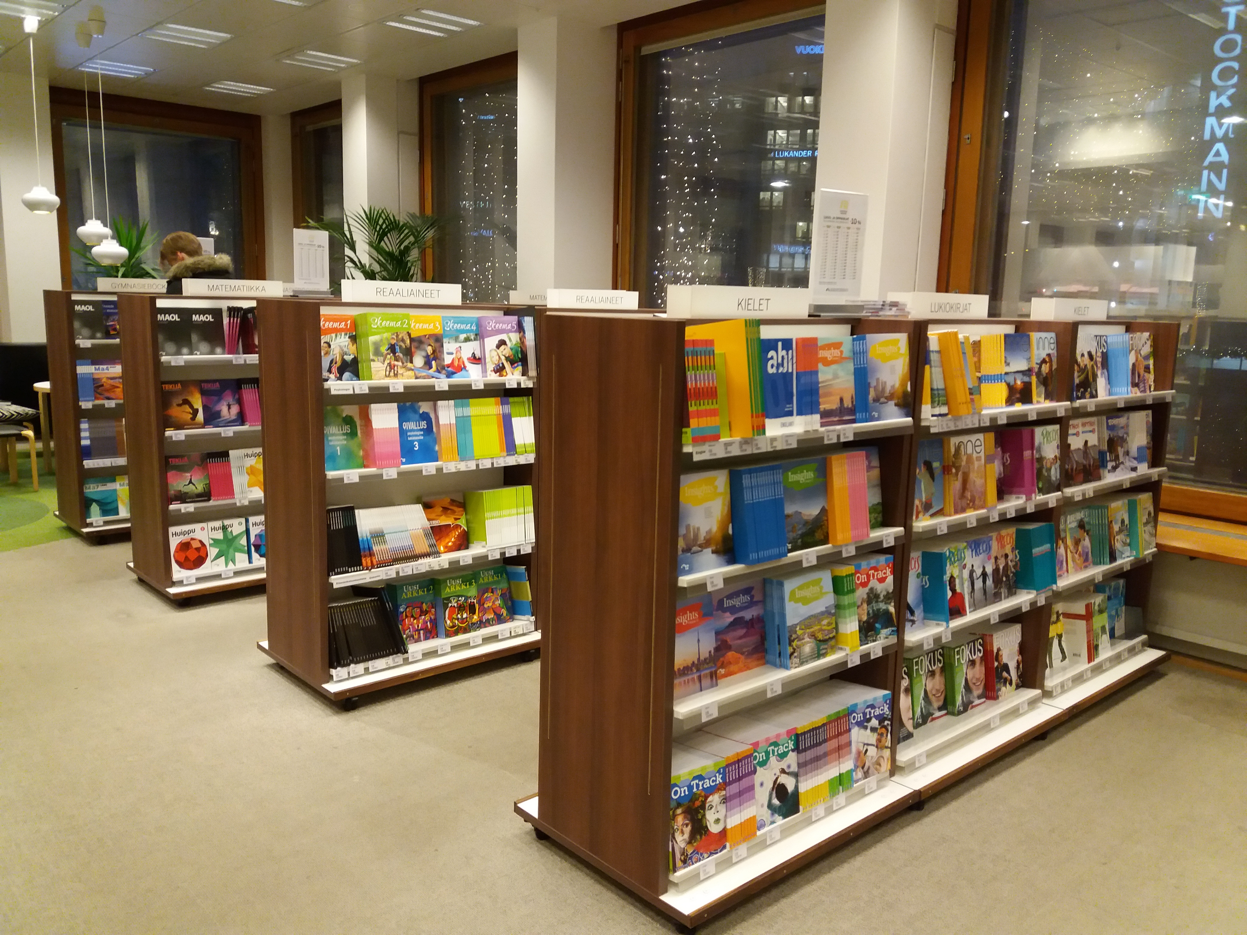 Finnish gymnasium books in Academic Bookstore, Helsinki.